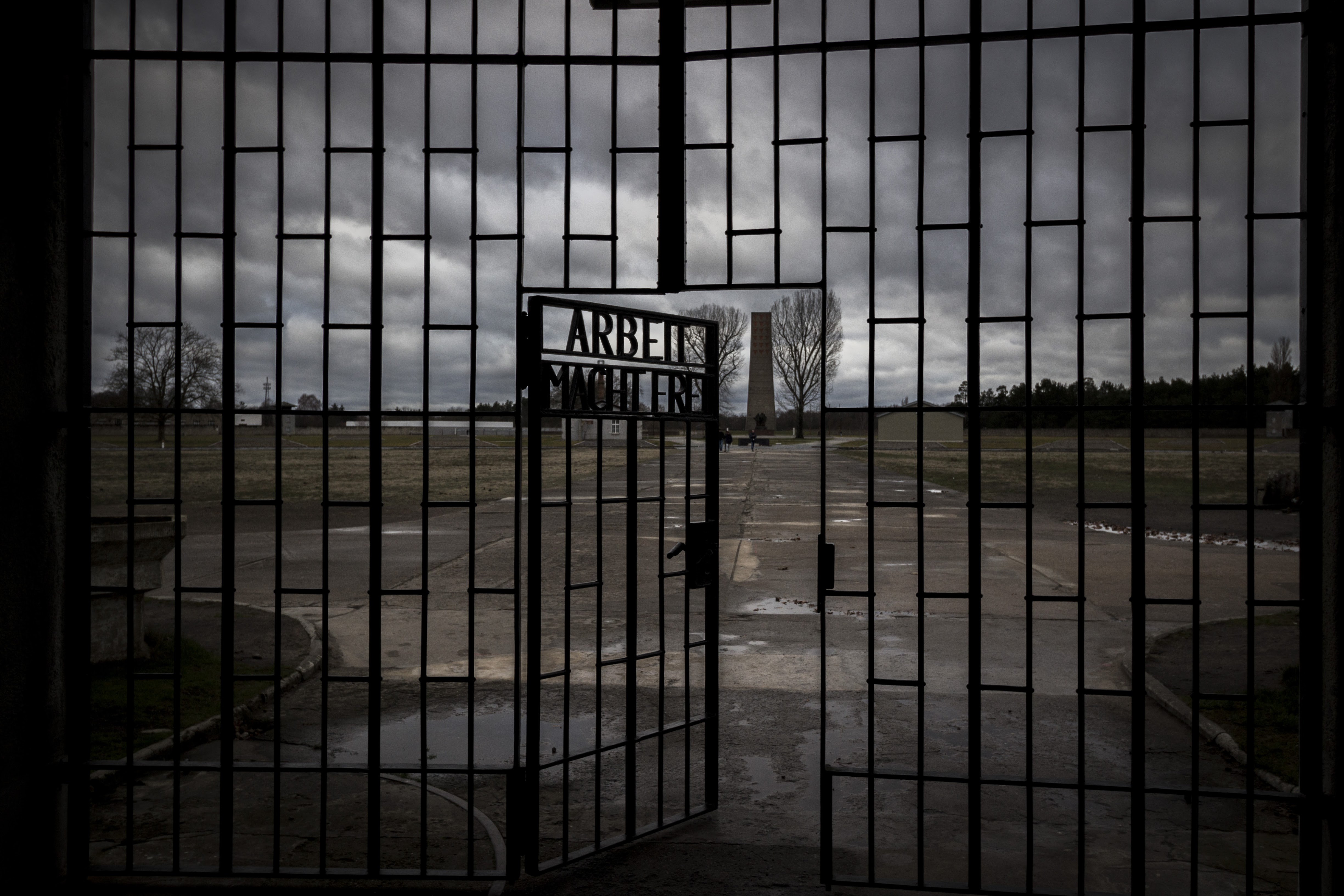 Entrance of Sachsenhausen concentration camp, in Berlin